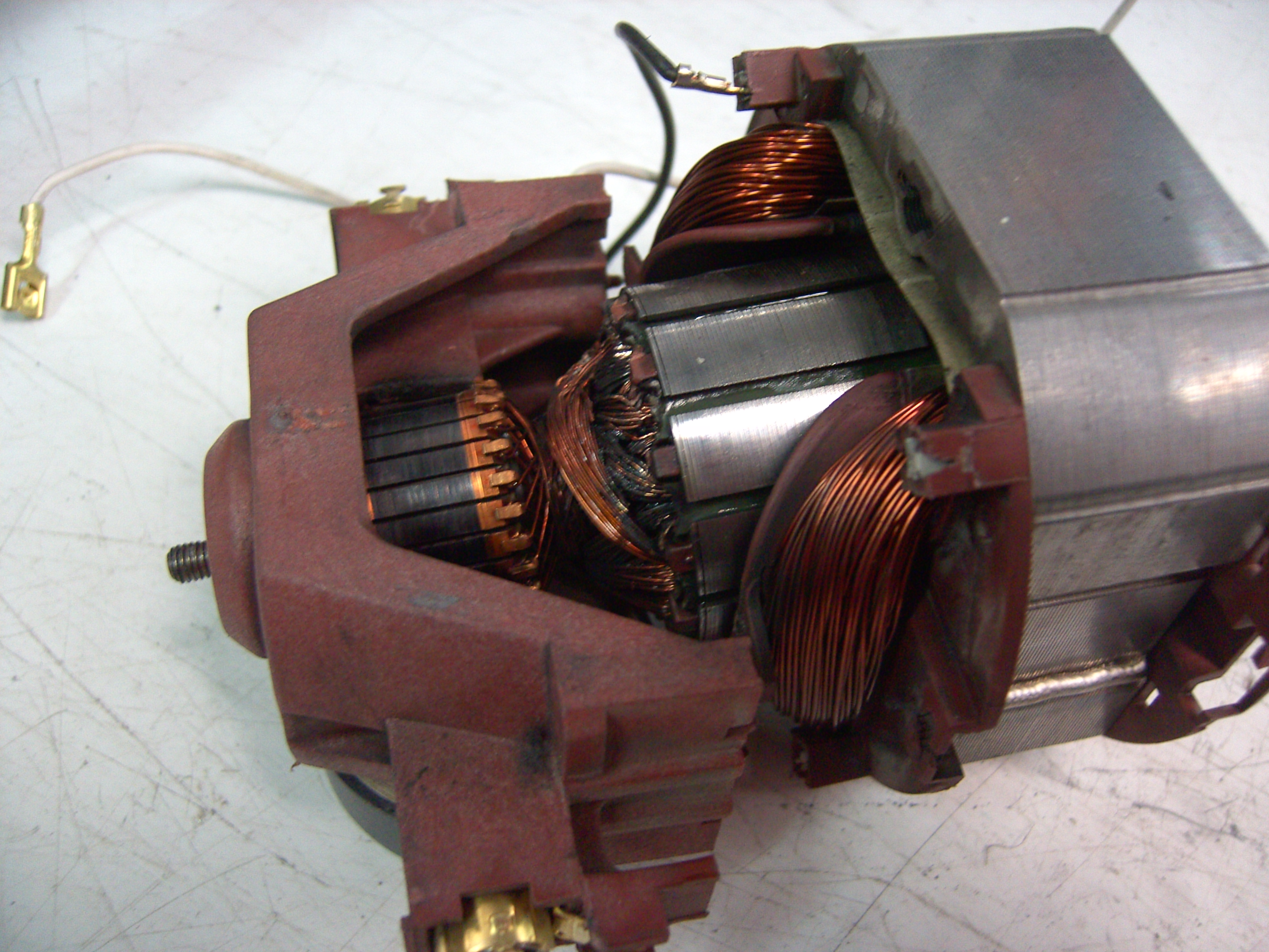 Universal motor of a vacuum cleaner